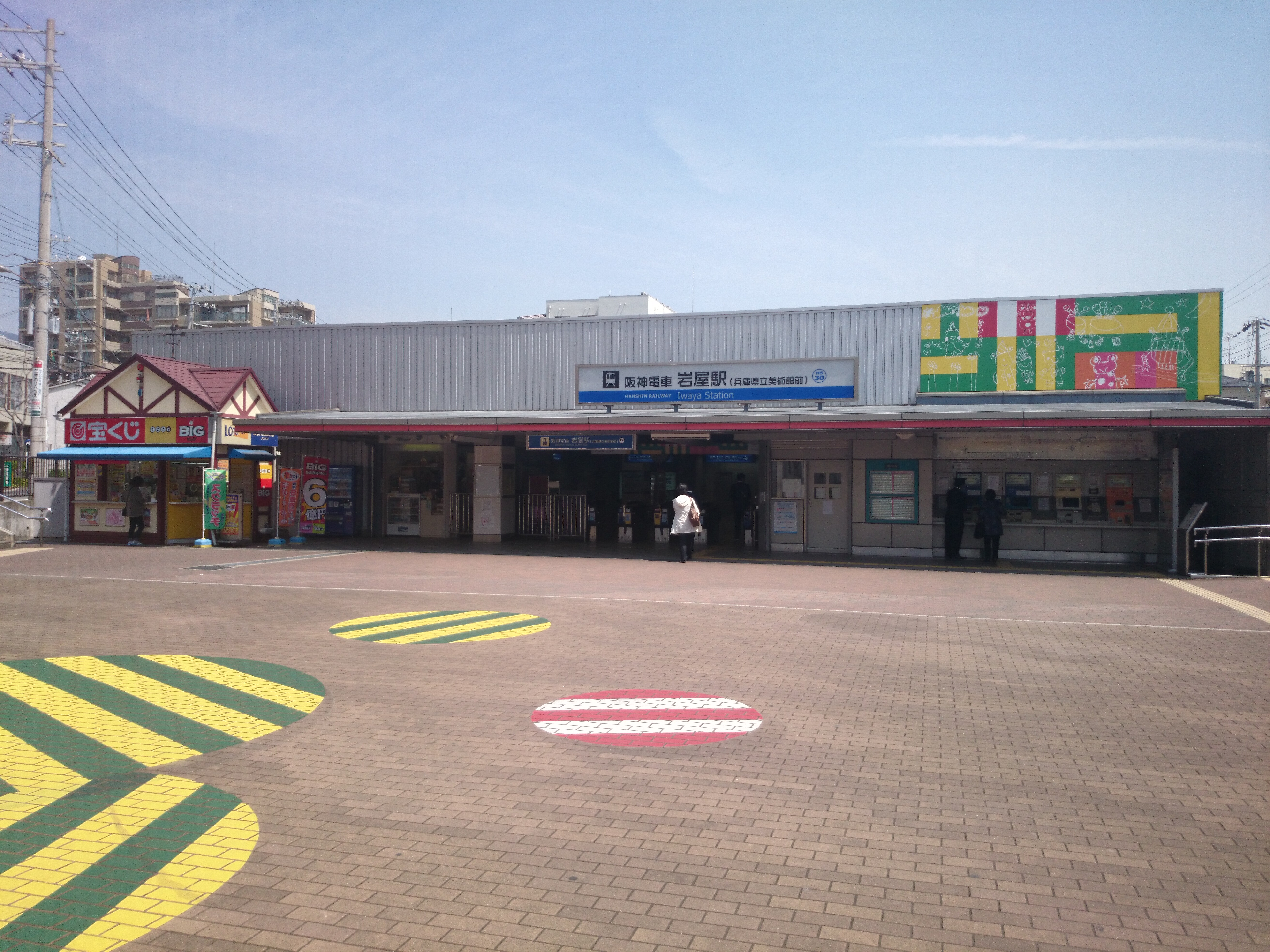 Hanshin Iwaya Station(Hyōgo Prefectural Museum of Art)